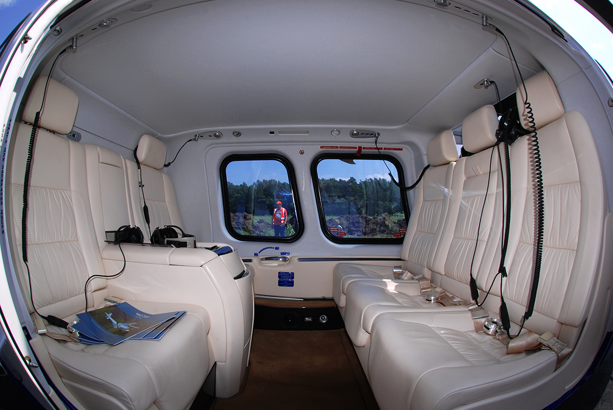 Agusta A-109S Grand RA-01903